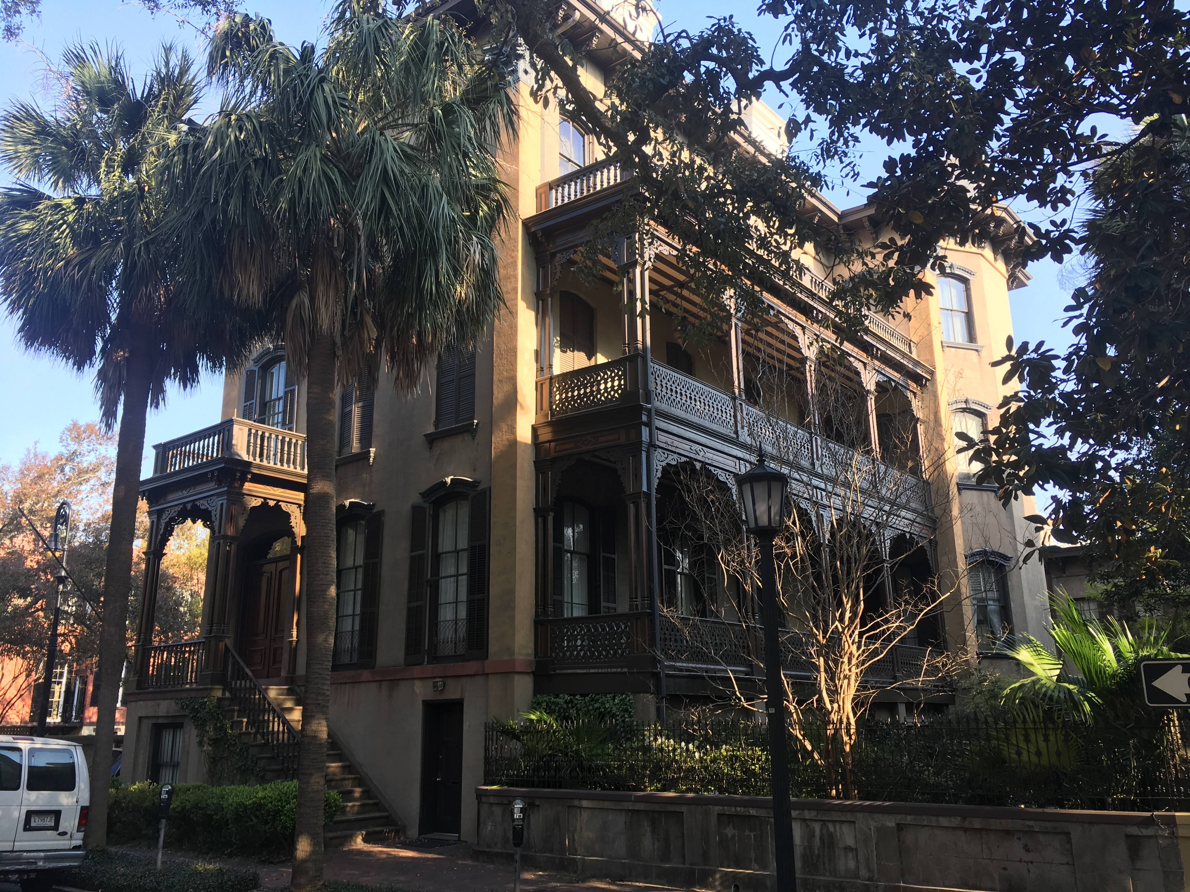 Location used in the film version of Midnight in the Garden of Good and Evil.